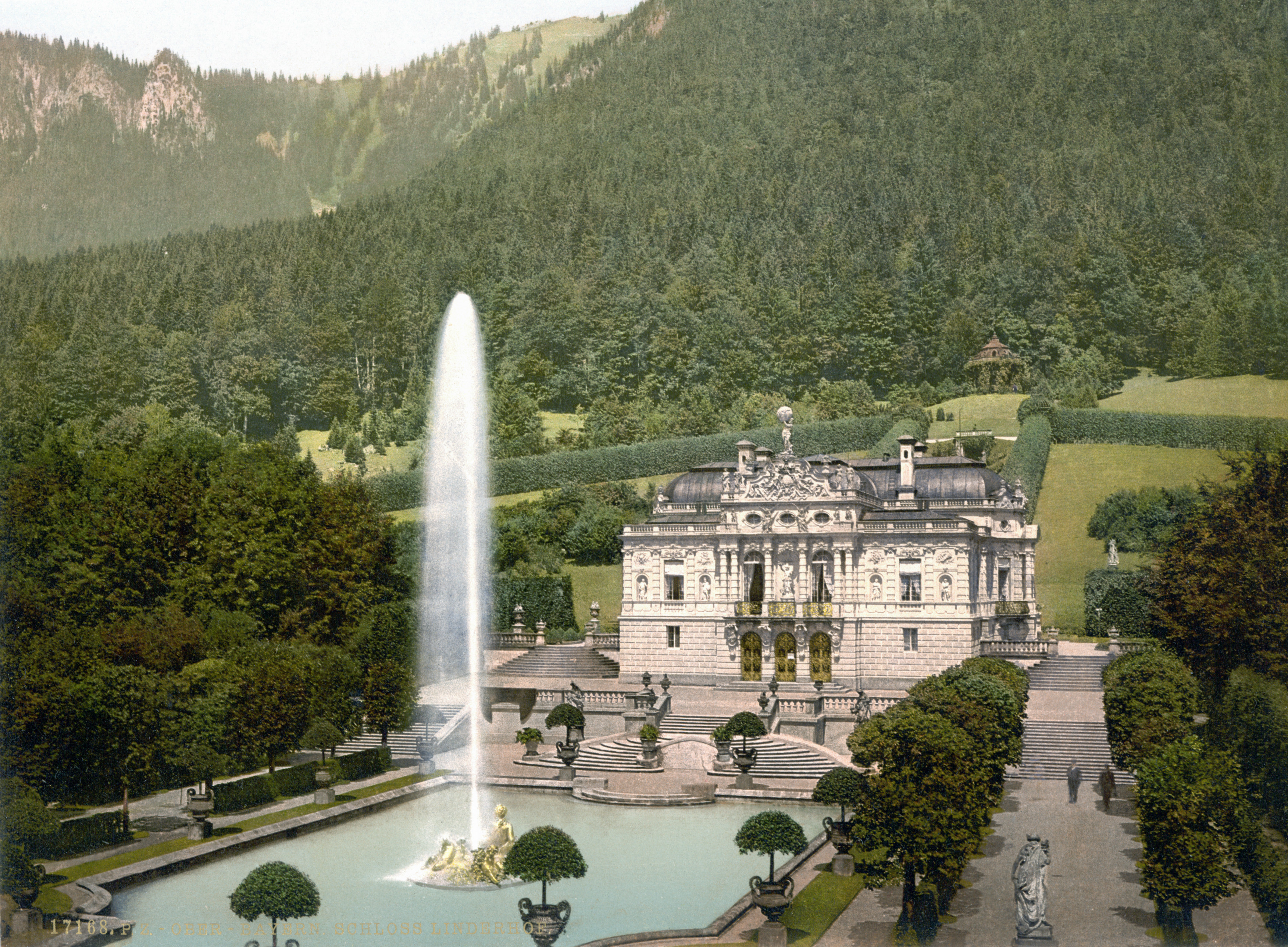 Schloss Linderhof, around 1900